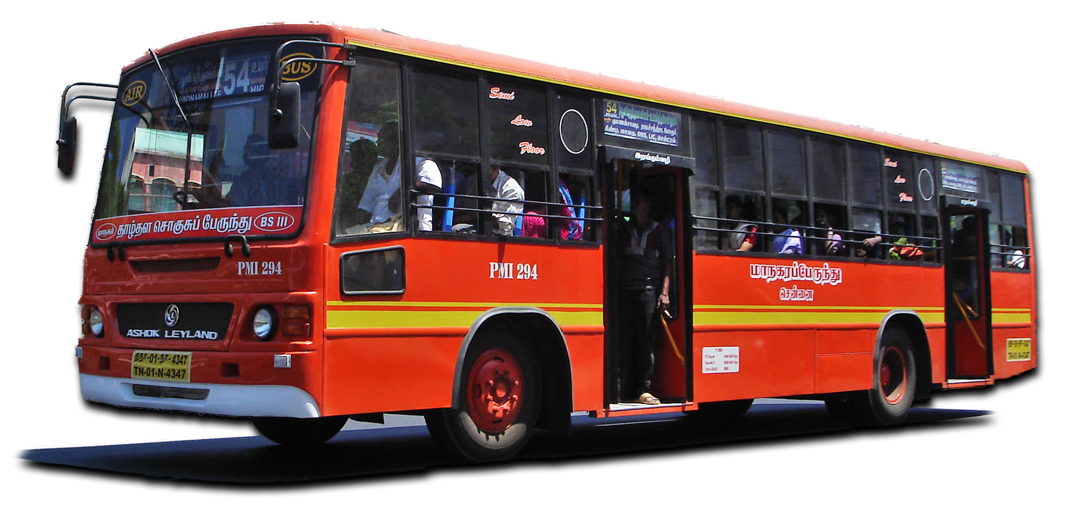 An orange line MTC (Chennai) bus.